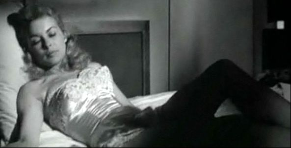 Screenshot of Janet Leigh from the trailer for the film Touch of Evil